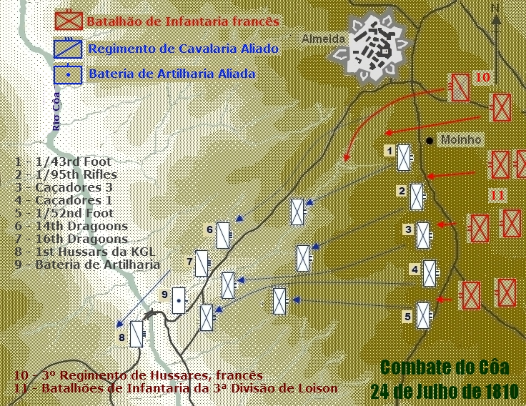 Map containing the positions of the beginning of combat forces in the Coa and indication of movement of units.